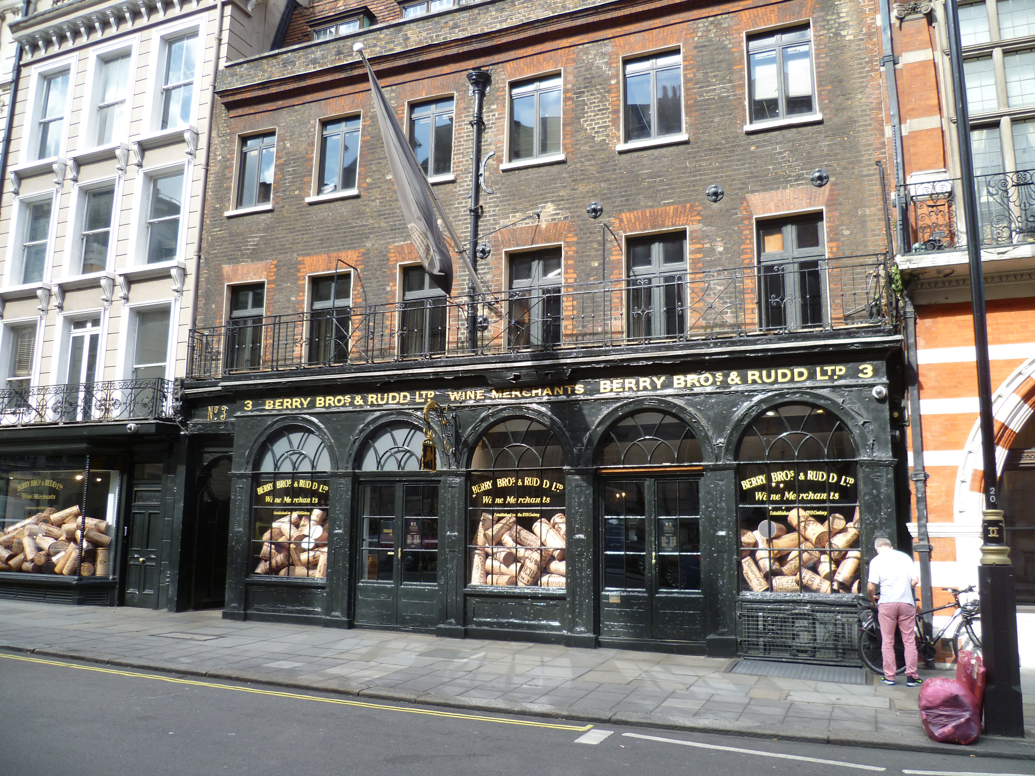 Berry Brothers & Rudd